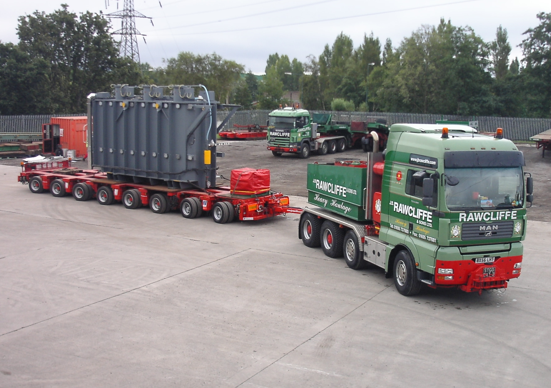 JB Rawcliffe & Sons Ltd ballast tractor unit with 92,000 kg transformer loaded to Nicolas modular axles